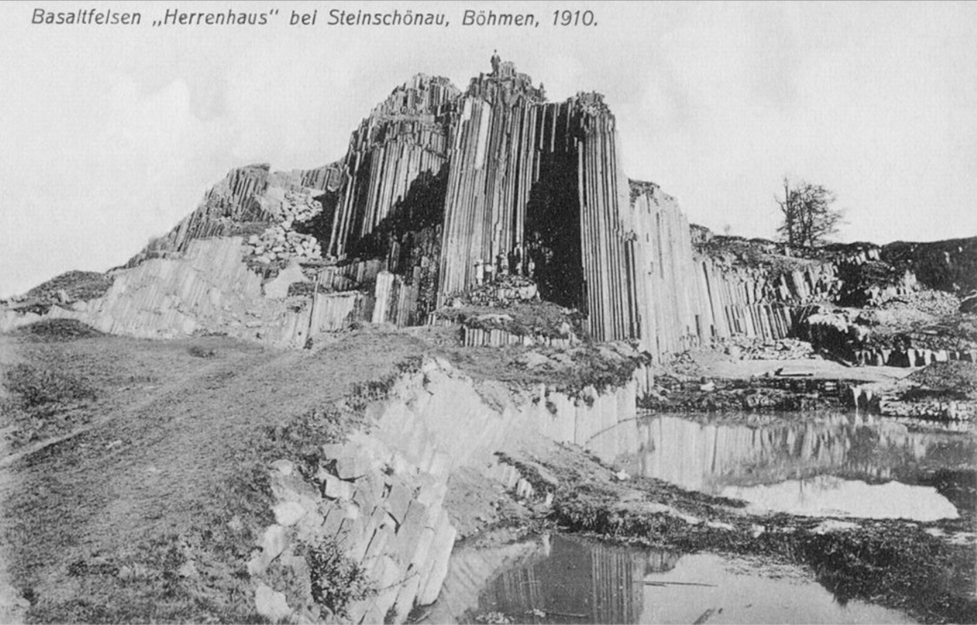 Kamenický Šenov, (Steinschönau), Panská Skála (Herrenhausfelsen), basalt formation. Old Postcard, year 1910.